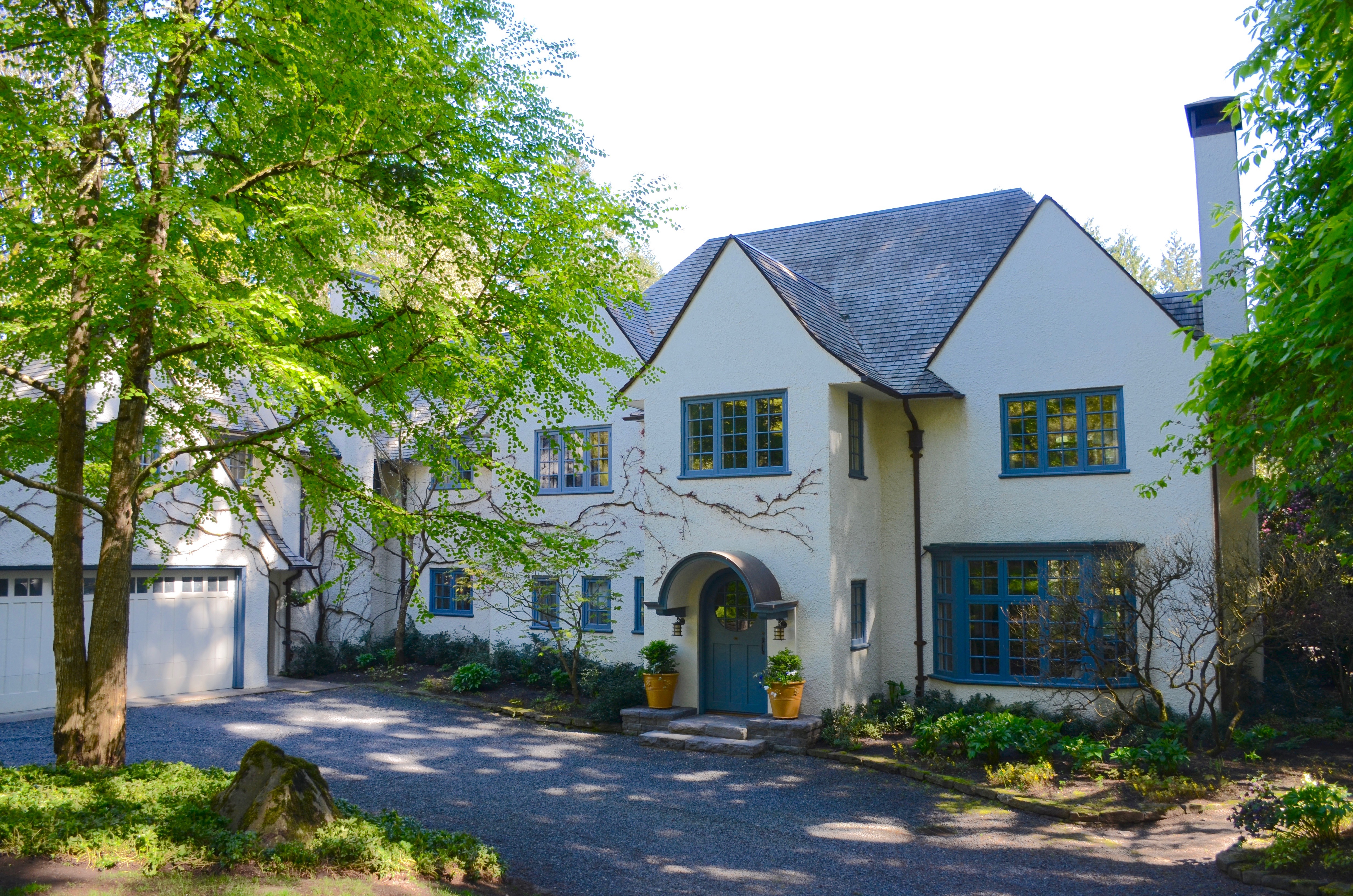 The Maurice Crumpacker House, built in 1923, is listed on the U.S. National Register of Historic Places.